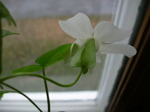 window gardening, thunbergia alata, white with black eye, in a pot